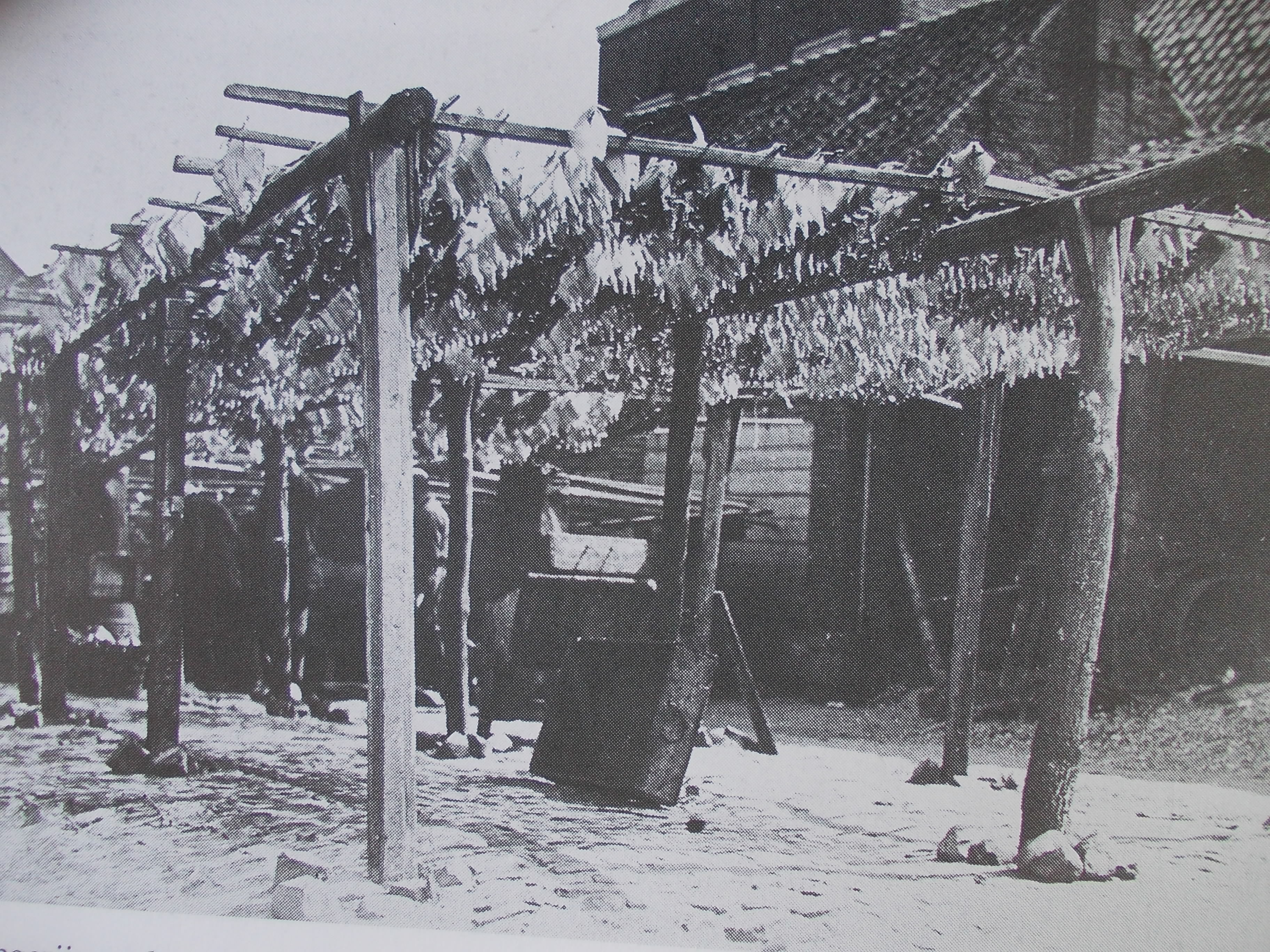 Dryingplace fisb